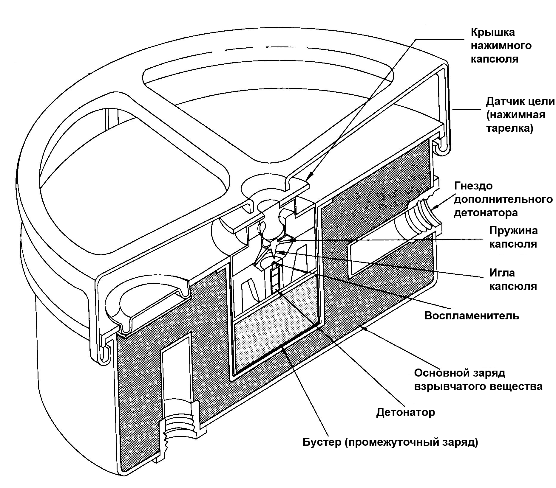 A cutaway of a US M1, M4 anti-tank mine dating from circa 1945, showing 2 additional fuze wells designed for use with booby-trap firing devices.